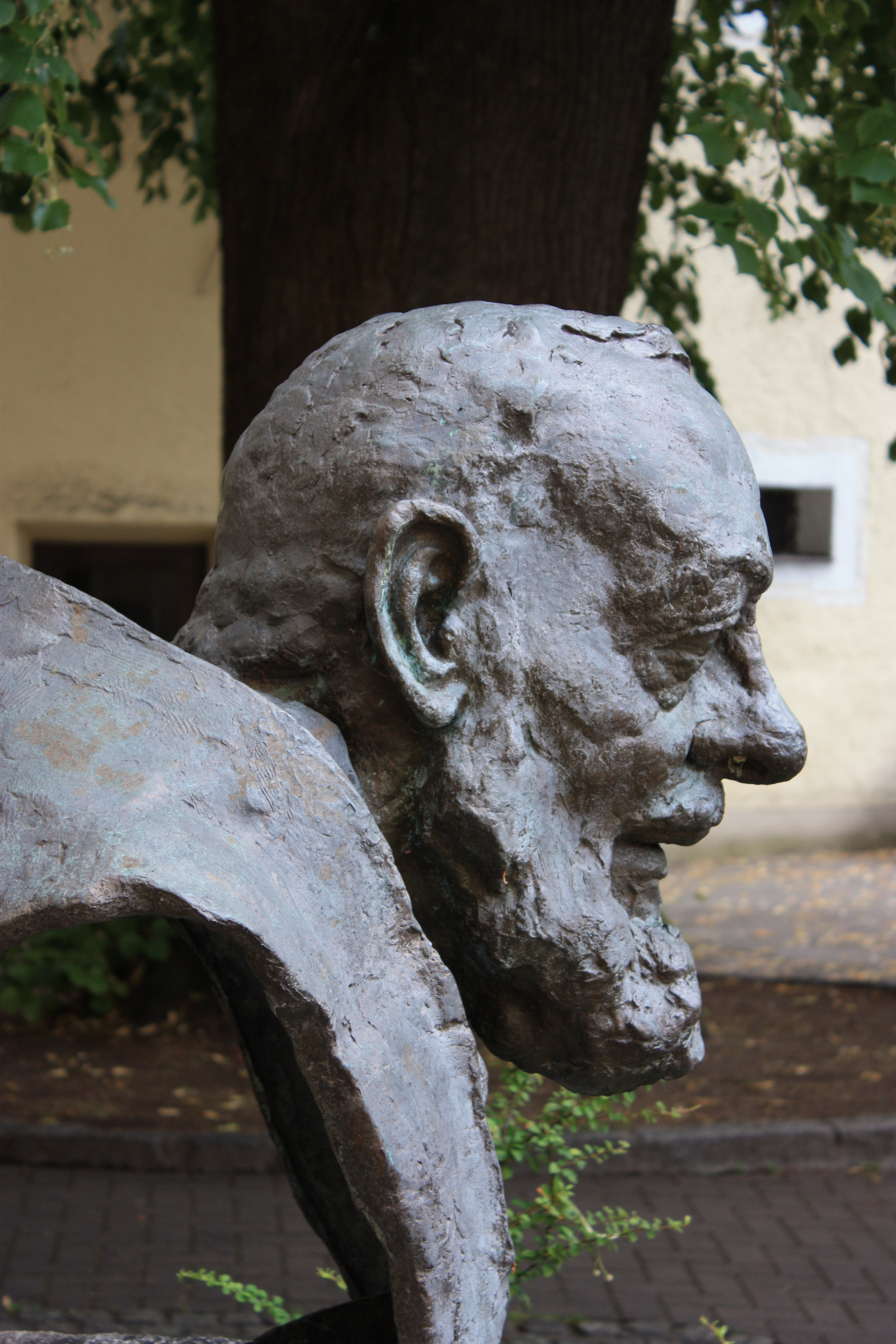 Padre-Pio-sculpture Locality:Muchargasse Community:Lienz